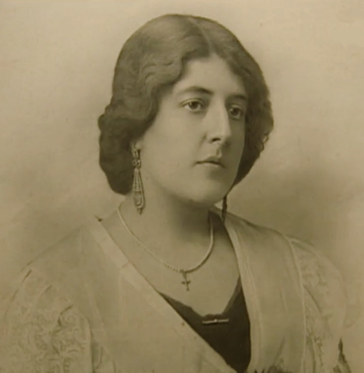 Charcoal drawing of Maria Joana Queiroga de Almeida (1885-1965), First Lady of Portugal in 1919-1923.